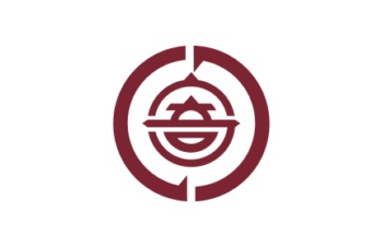 Flag of Yorii Saitama